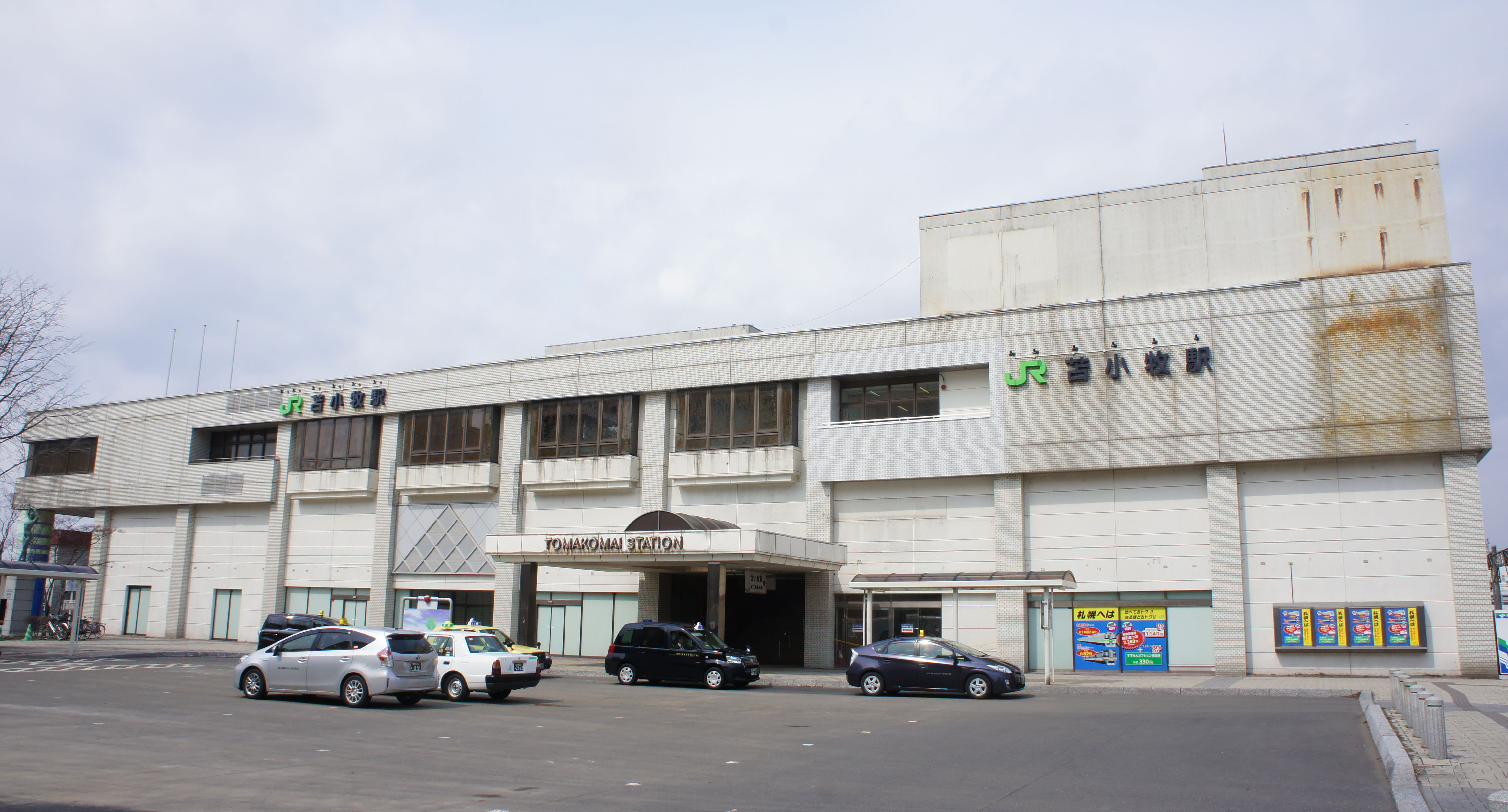 South Exit of JR Muroran-Main-Line/Hidaka-Main-Line Tomakomai Station Sony NEX-3 + E 18-55mm F3.5-5.6 OSS